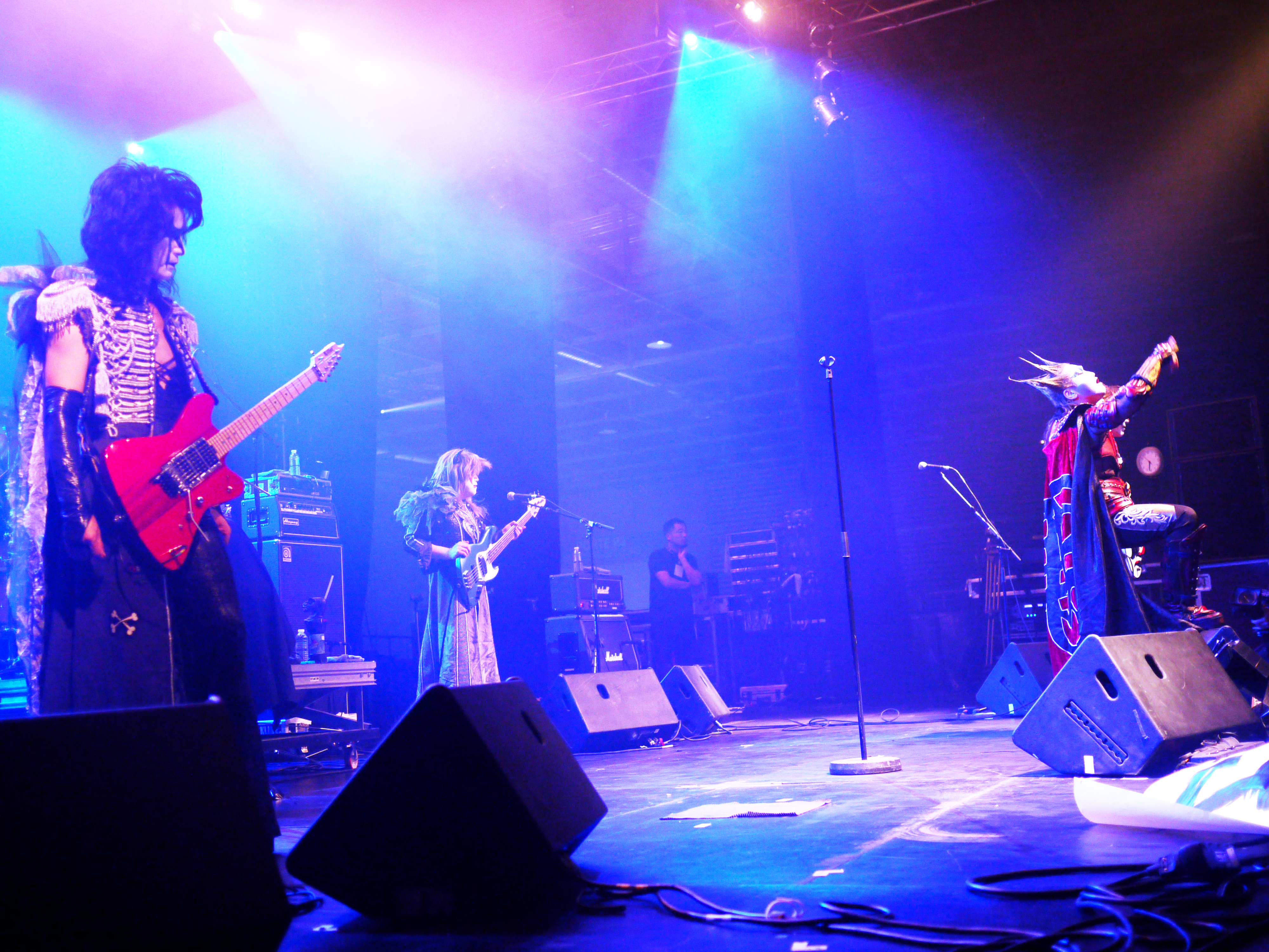 Japan Expo Festival, 11th impact